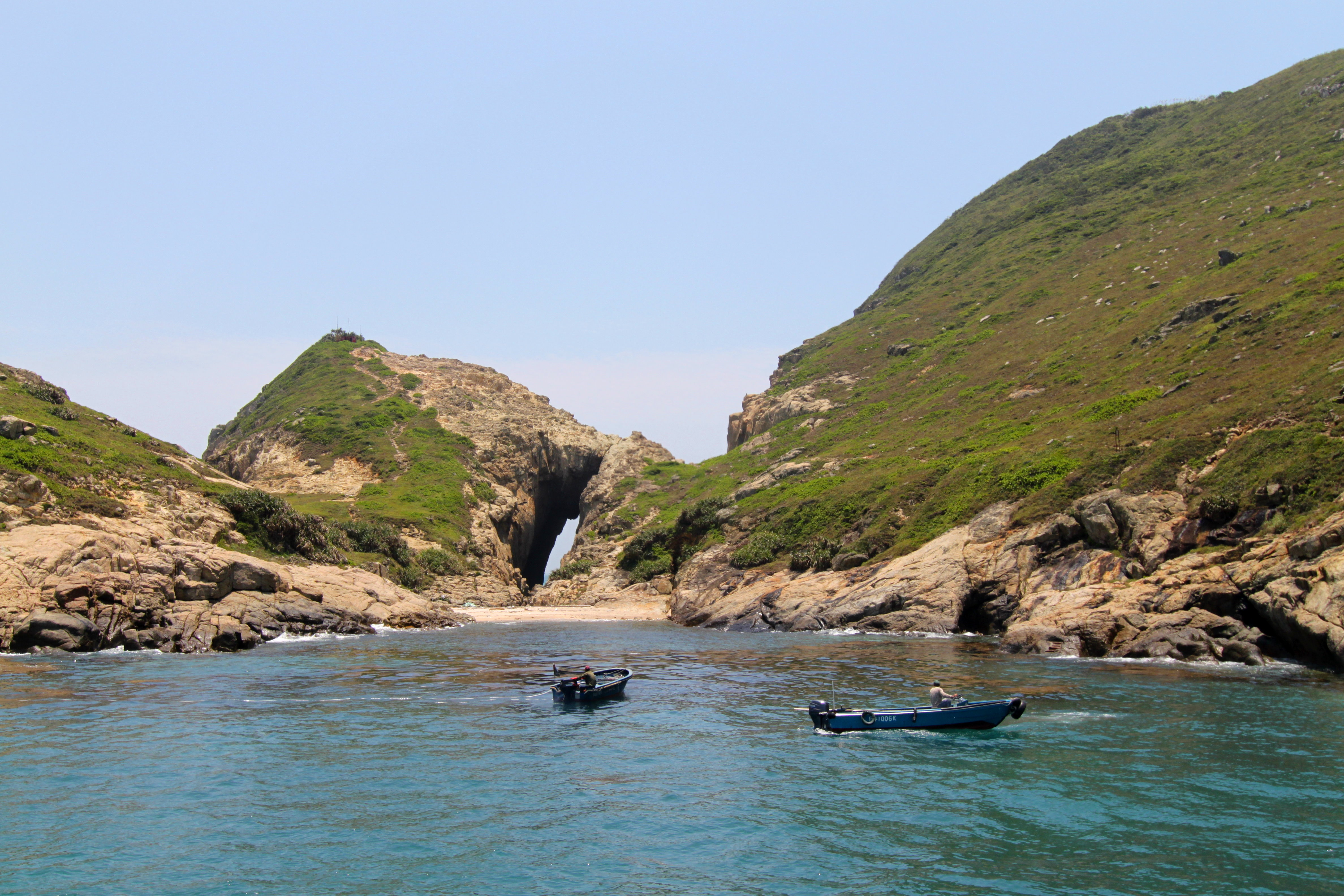 South Ninepin Island, Hong Kong Geopark